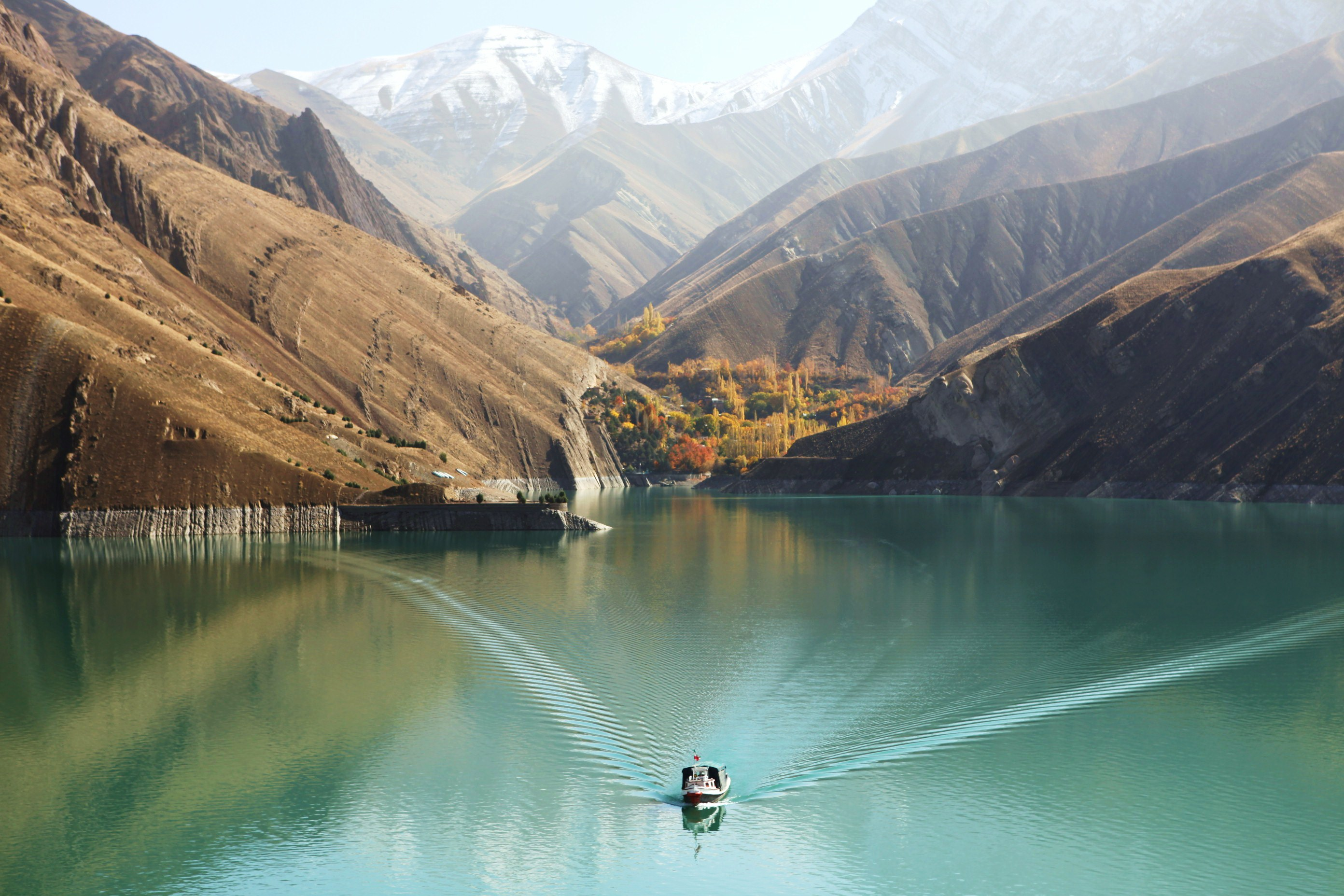 Amir Kabir Dam